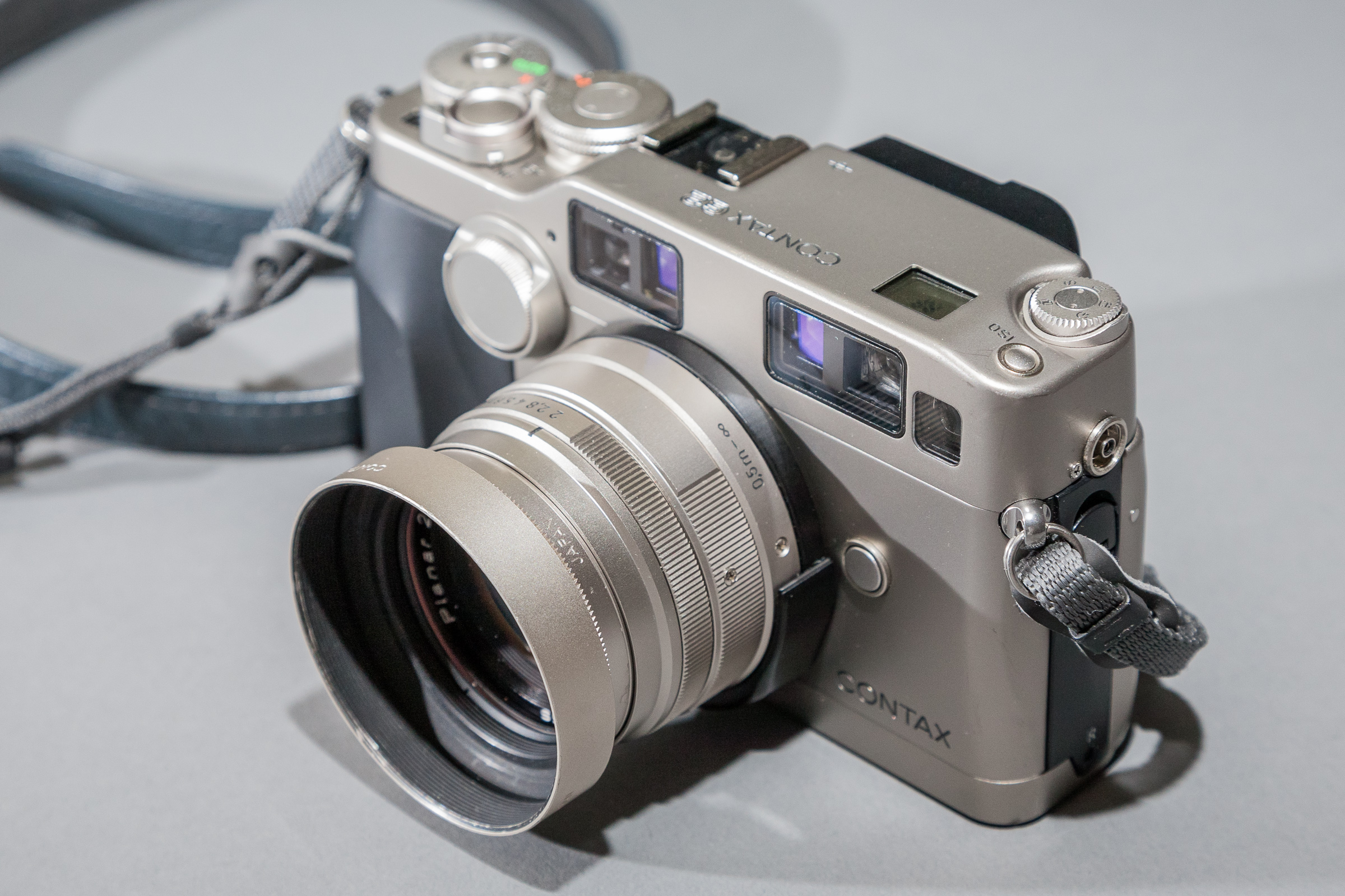 Contax G2 35mm rangefinder camera